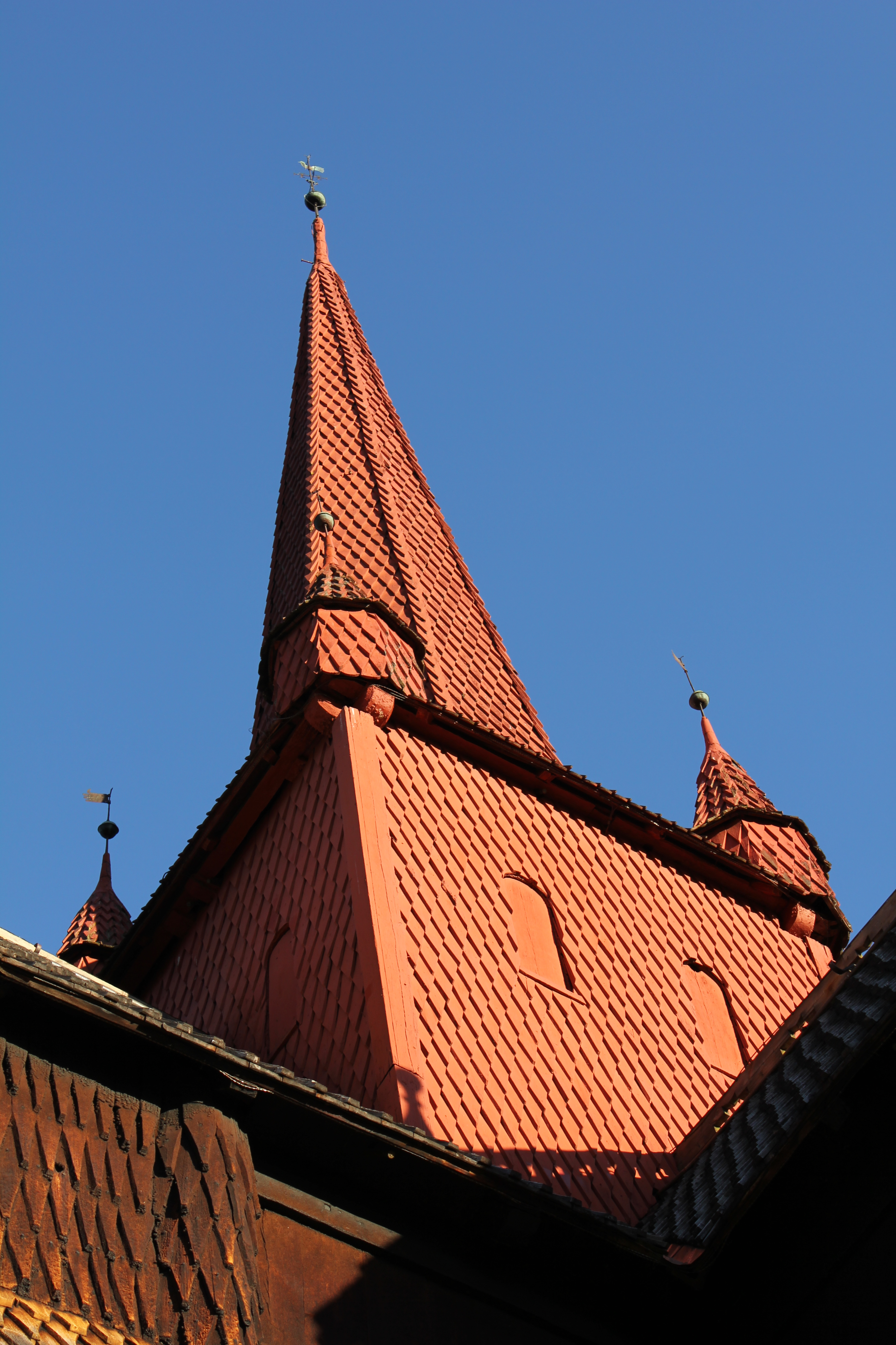 Speer at Ringebu Stavkyrkje